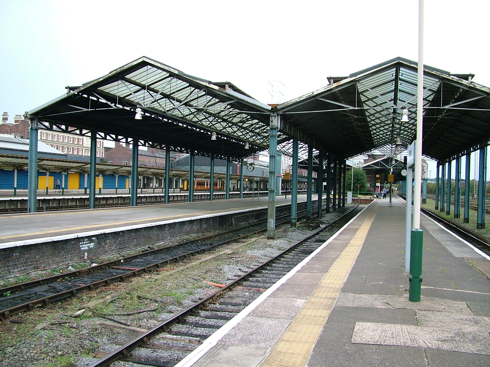 Chester railway station platforms. Photo by and copyright Tagishsimon 9th October 2005